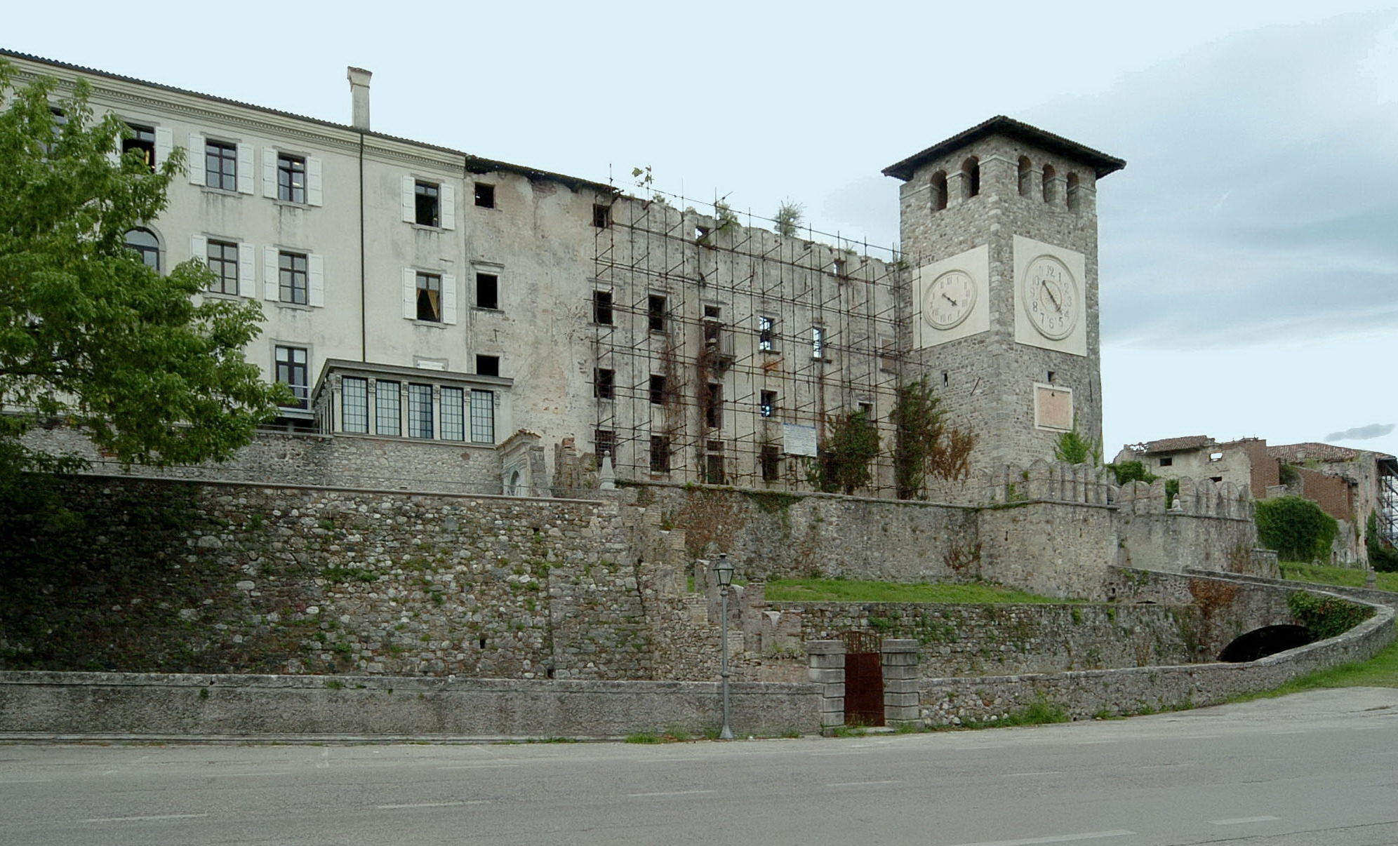 Castle of Colloredo di Monte Alban, province of Udine, region Friuli-Venezia Giulia, Italy